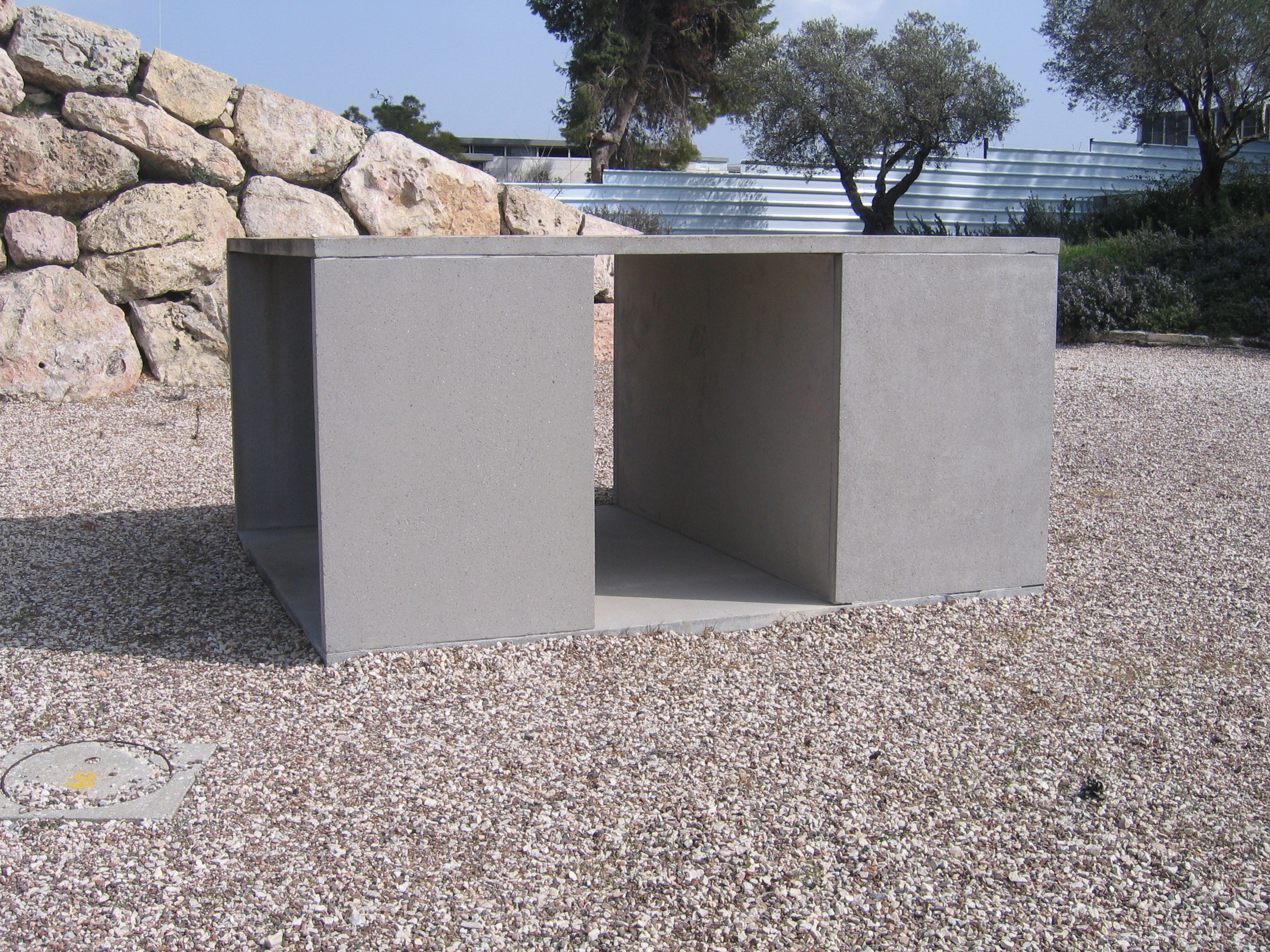 Untitled (1988-1991) by Donald Judd. Concreta at the Israel museum Art Garden.